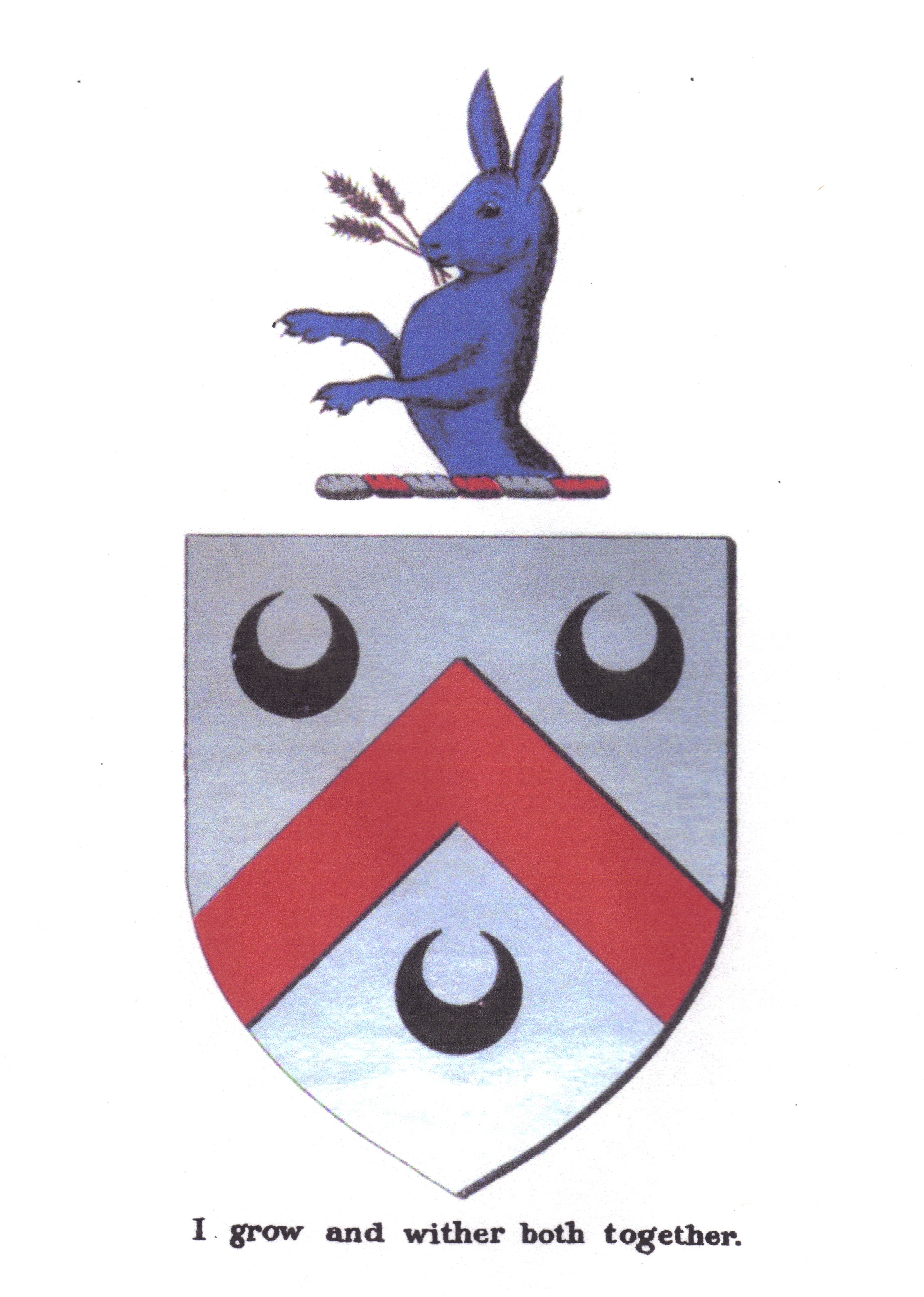 "Coloured Print of Wither Coat of Arms and Crest"